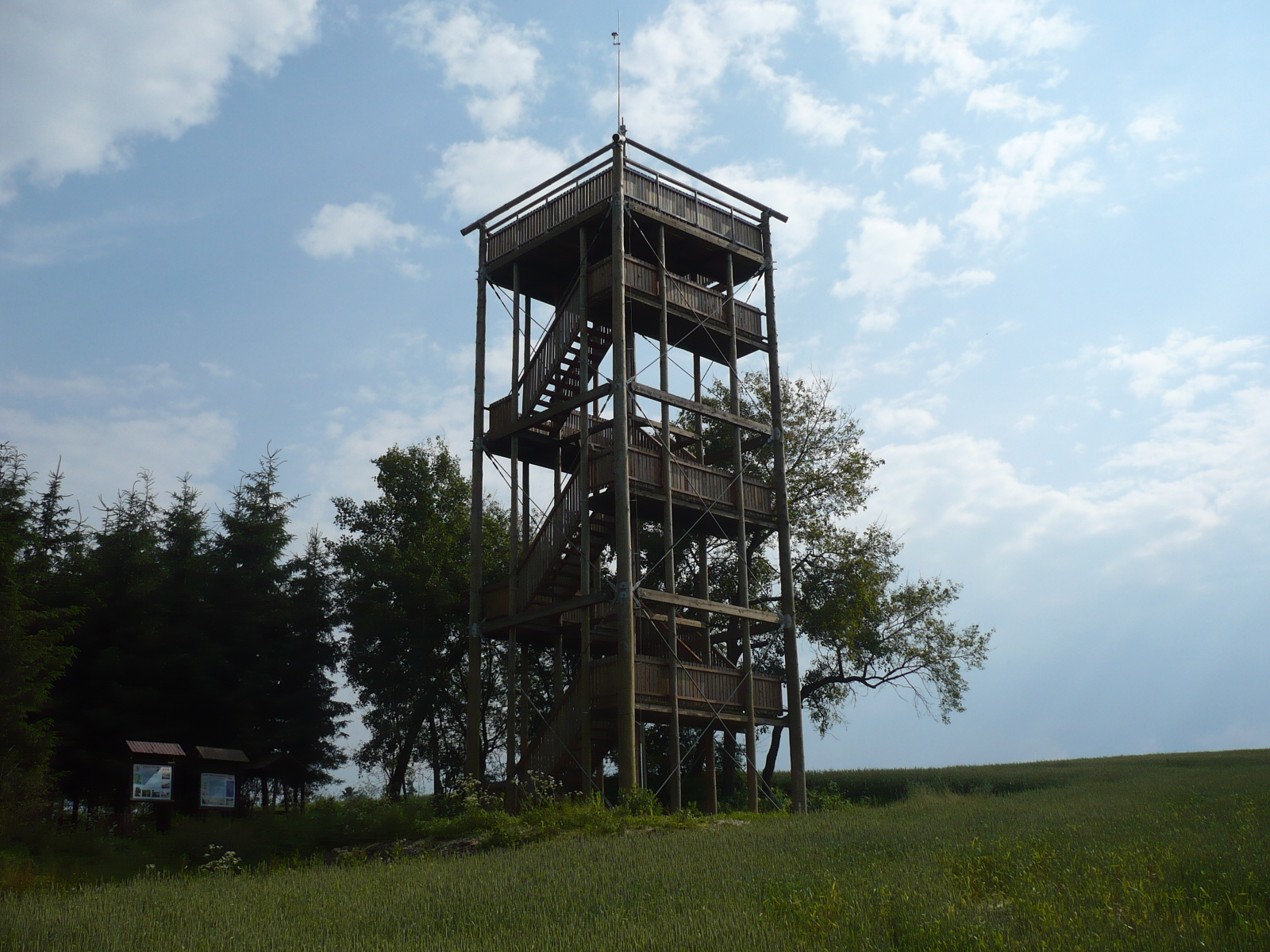 Observation tower Jary Cimrmana, near Březová nad Svitavou, Czech Republic